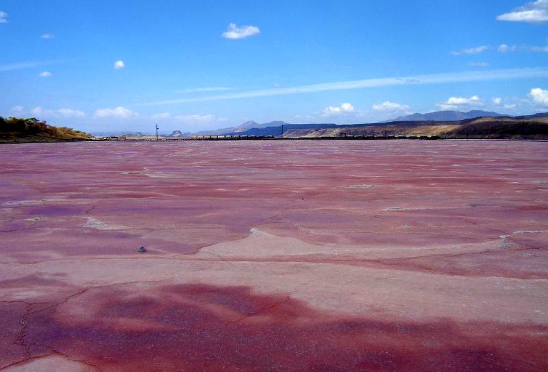 The pink waters of Lake Magadi, Kenya